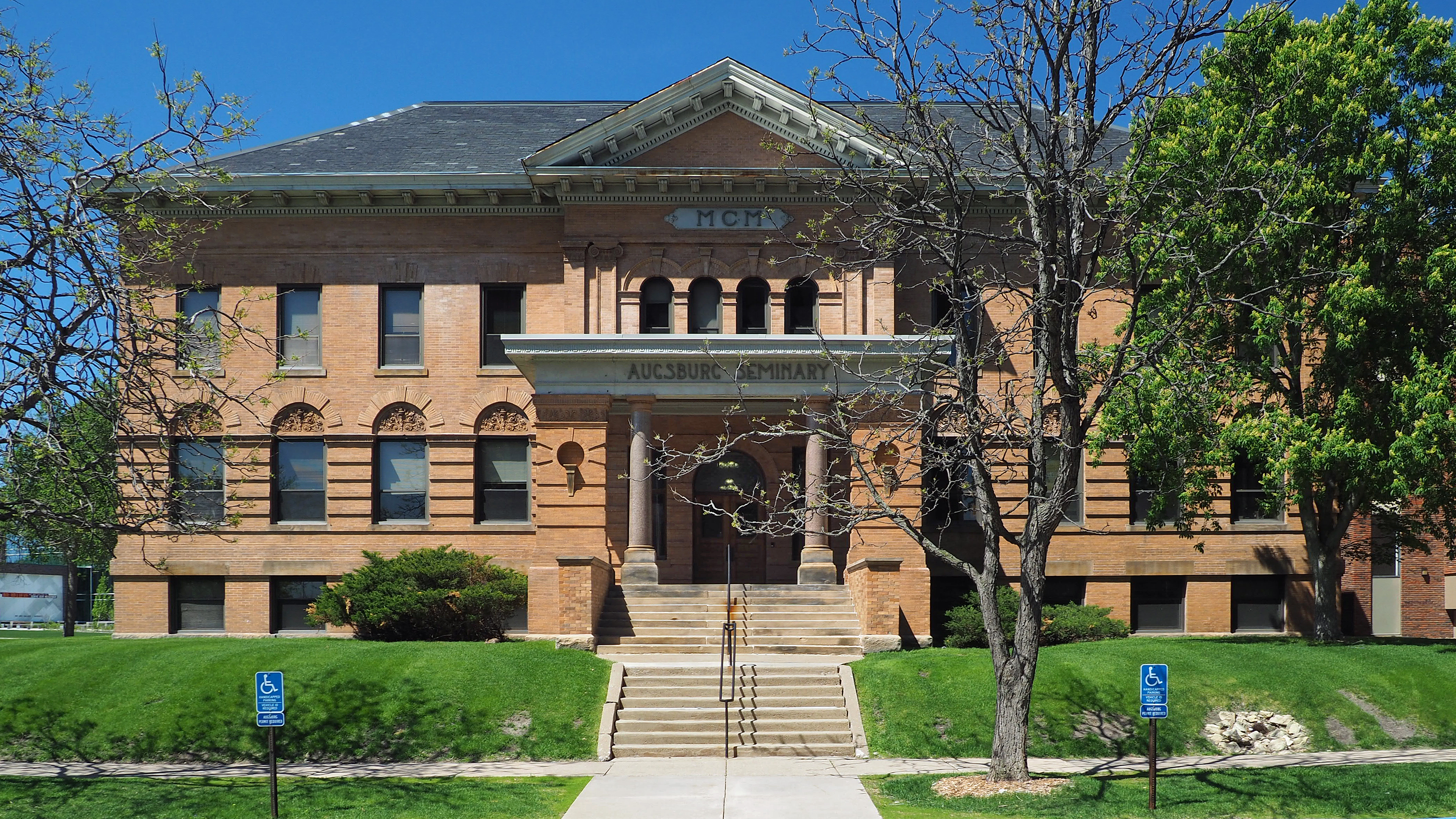 Old Main, Augsburg University, 731 21st Ave S, Minneapolis, Minnesota, USA. Viewed from the south.